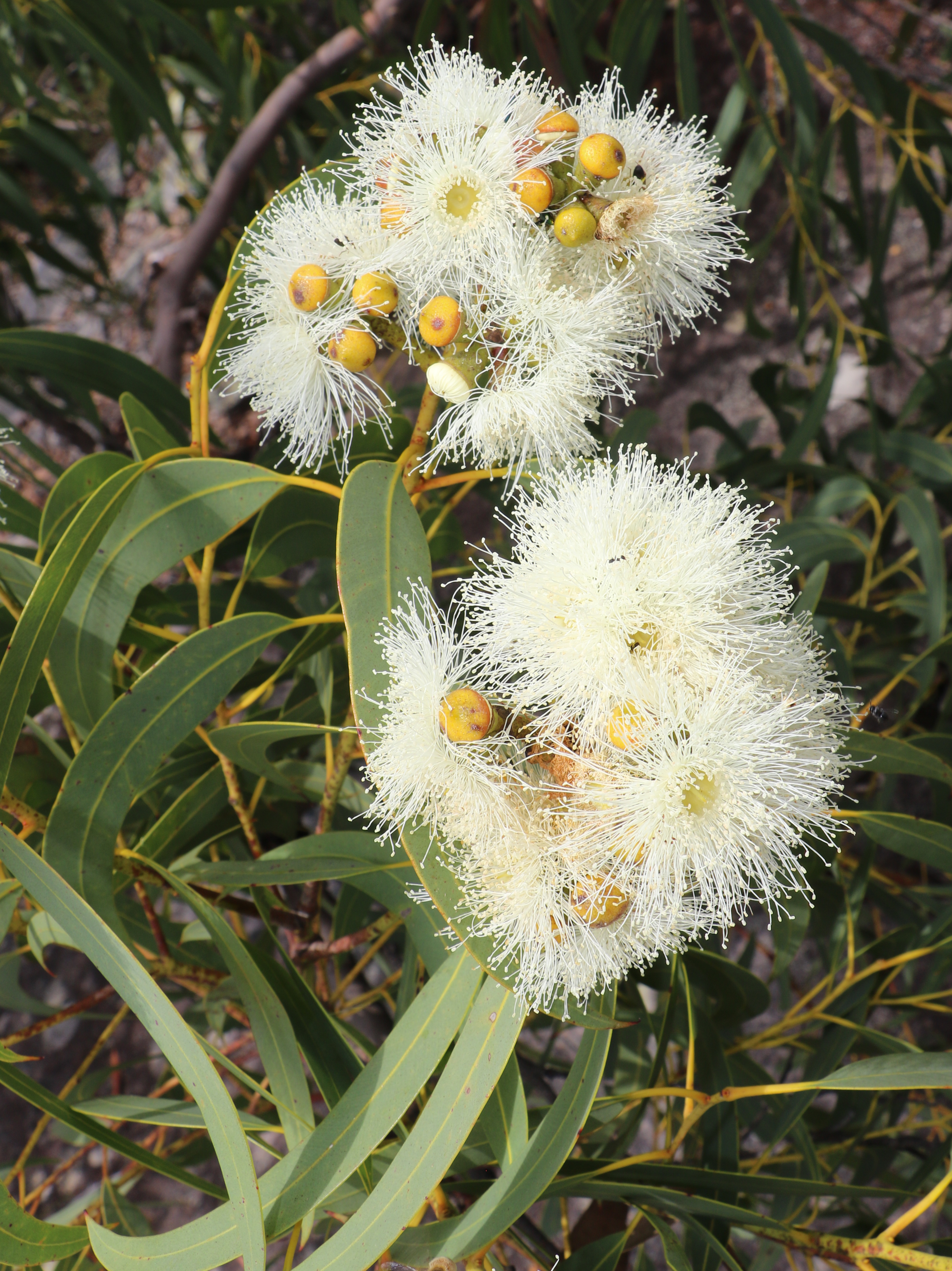 Yellow Bloodwood (Corymbia eximia). Near a rock platform at the end of Yeomans Track, Ku-ring-gai Chase National Park. Sydney, Australia